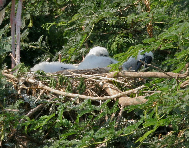 Painted Stork Mycteria leucocephala at Uppalapadu, Andhra Pradesh, India.